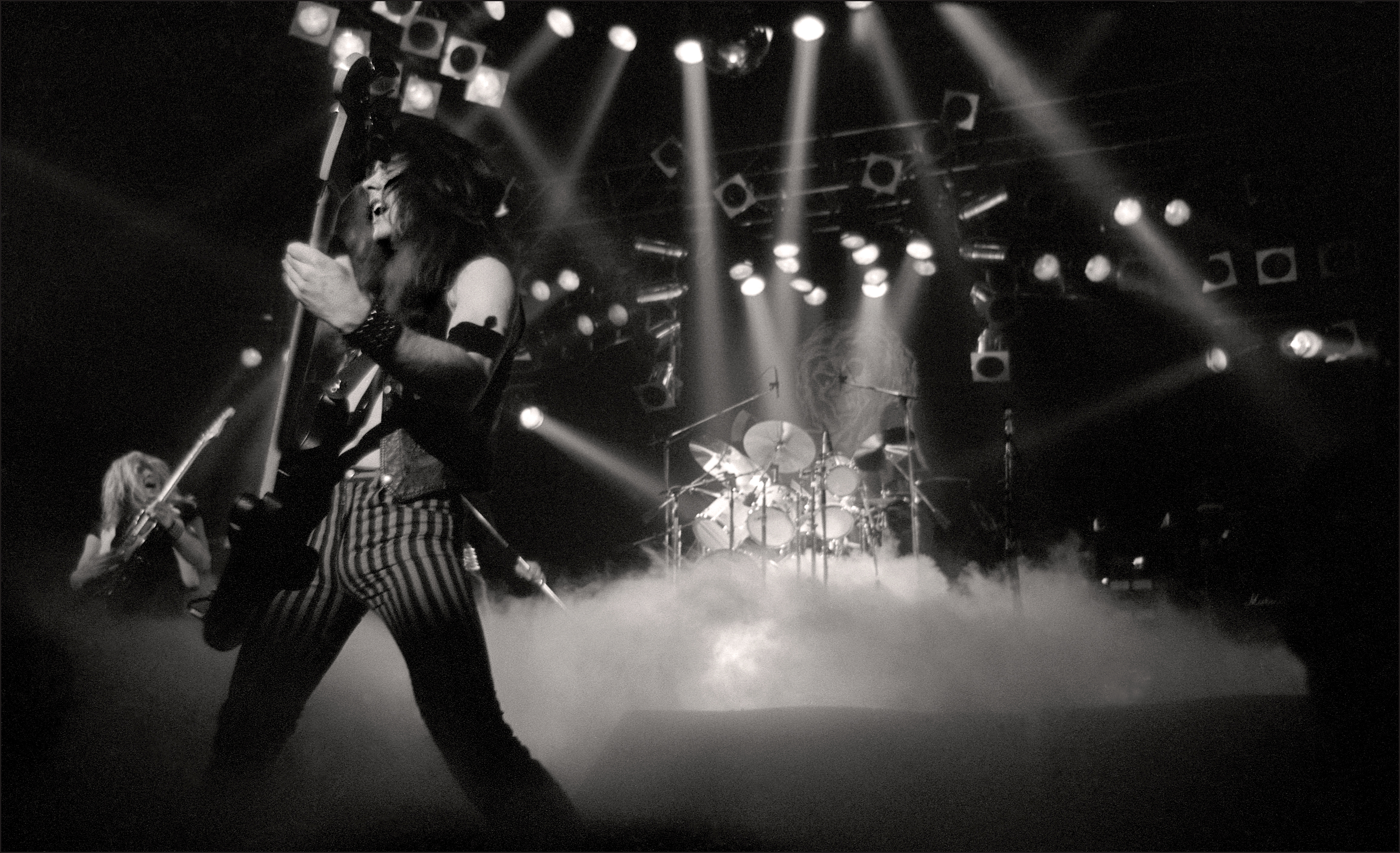 Iron Maiden performing live at Manchester Apollo (1980).